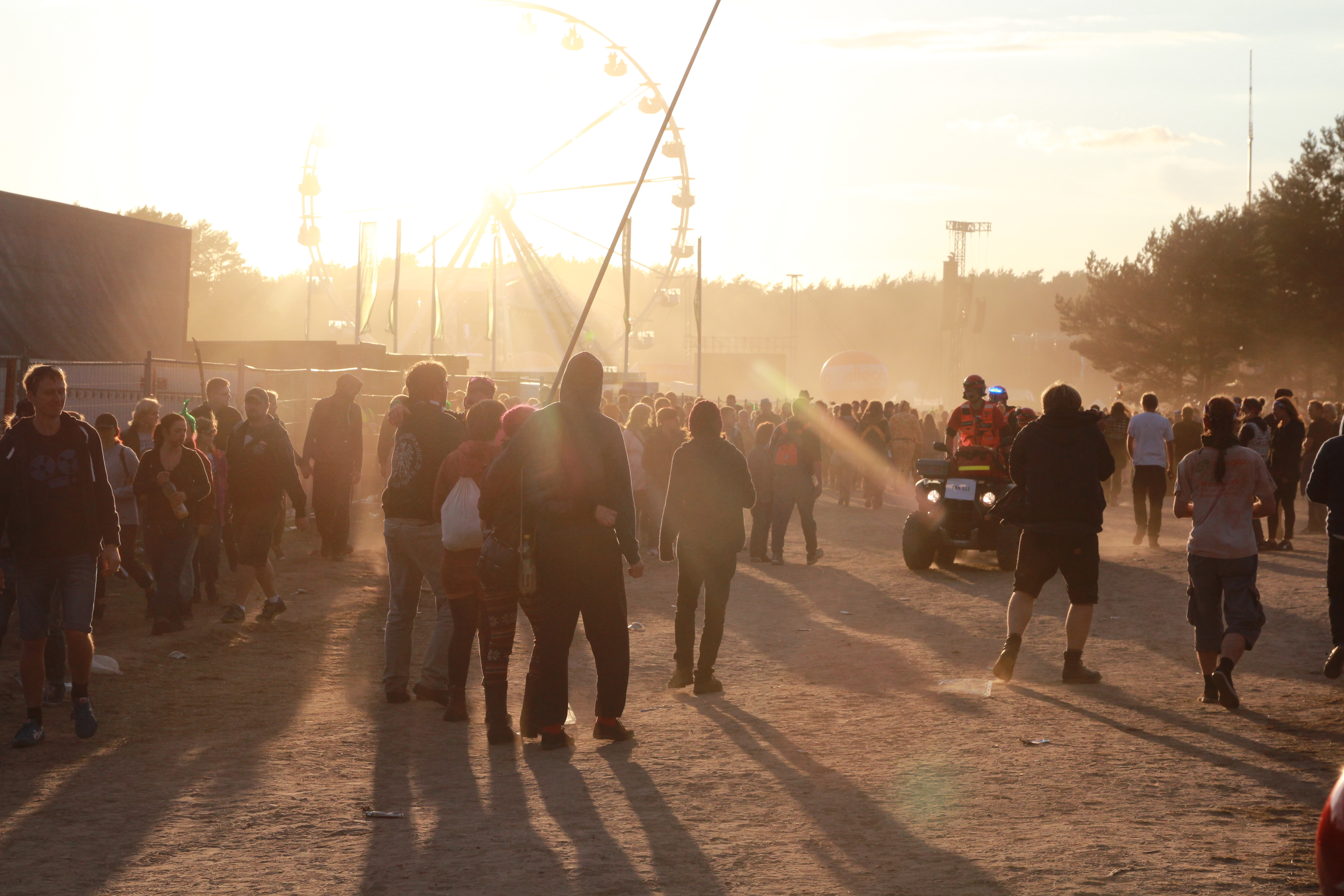 Przystanek Woodstock in 2015.